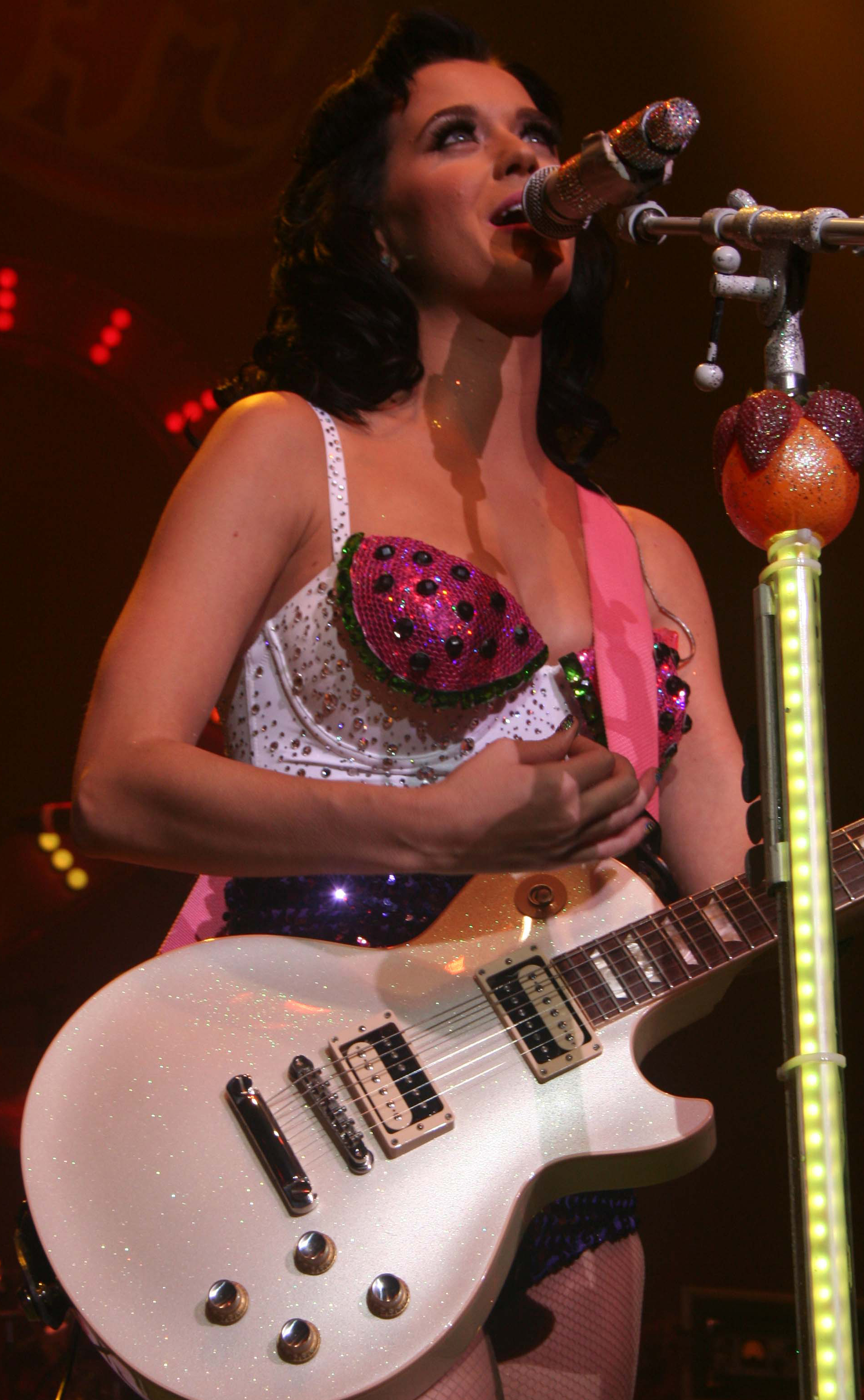 Katy Perry performing at the [Red] Nights Presents Benefit Show in Hammerstein Ballroom, New York City in July 2009.